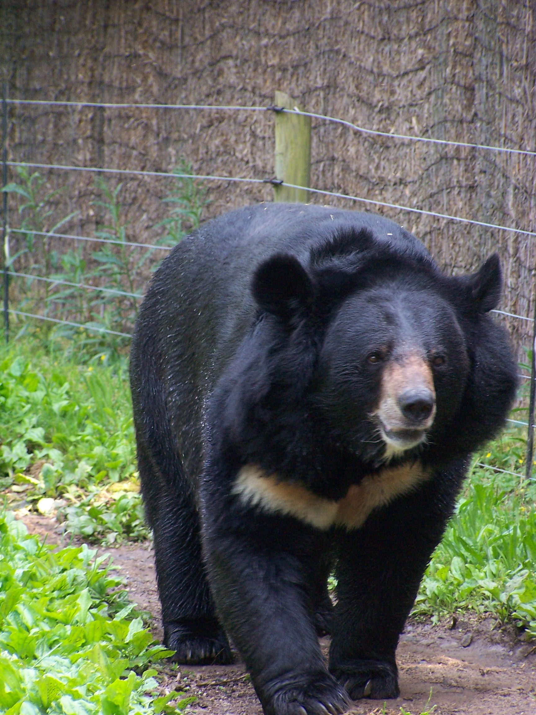 Black bear